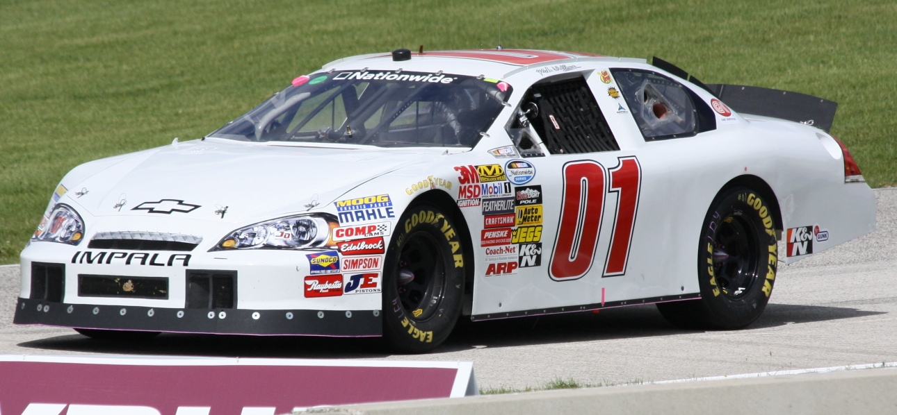 The NASCAR racecar for driver Mike Wallace (NASCAR) at the 2010 Bucyrus 200 at Road America.